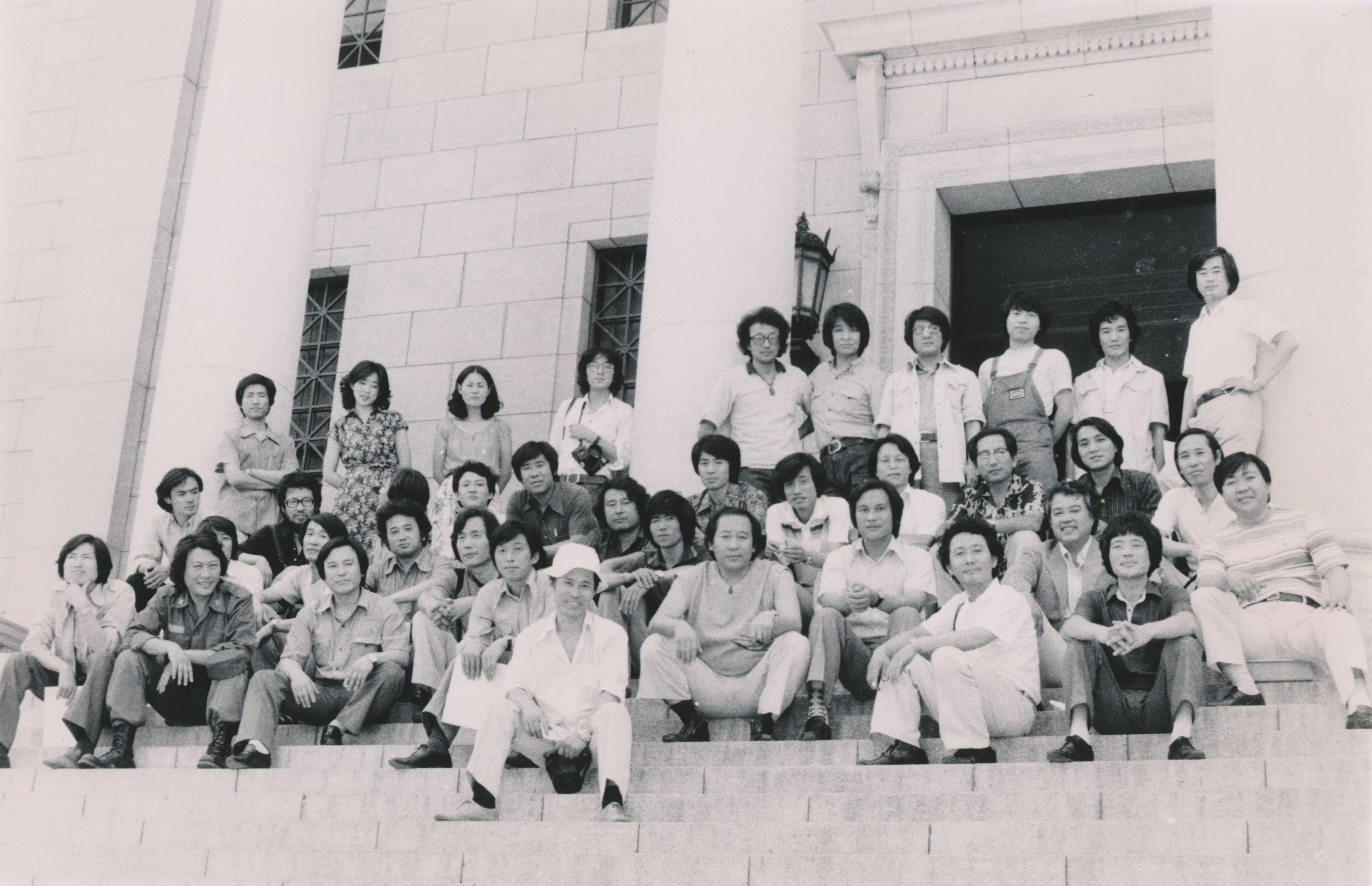 Park Seo-Bo organized a new form of annual exhibition titled "Ecole de Seoul" during his term of office as a vice-president. The first exhibition was held at National Museum of Modern and Contemporary Art - Deoksugung, Seoul, South Korea. This is a significant moment in the history of Korean contemporary art.